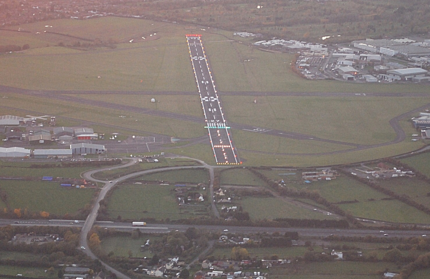 Gloucestershire Airport from the air, showing runway 27 with newly installed lighting.